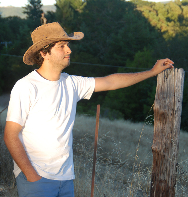 Wasel's favorite spot in Santa Cruz Mountains, California, USA.